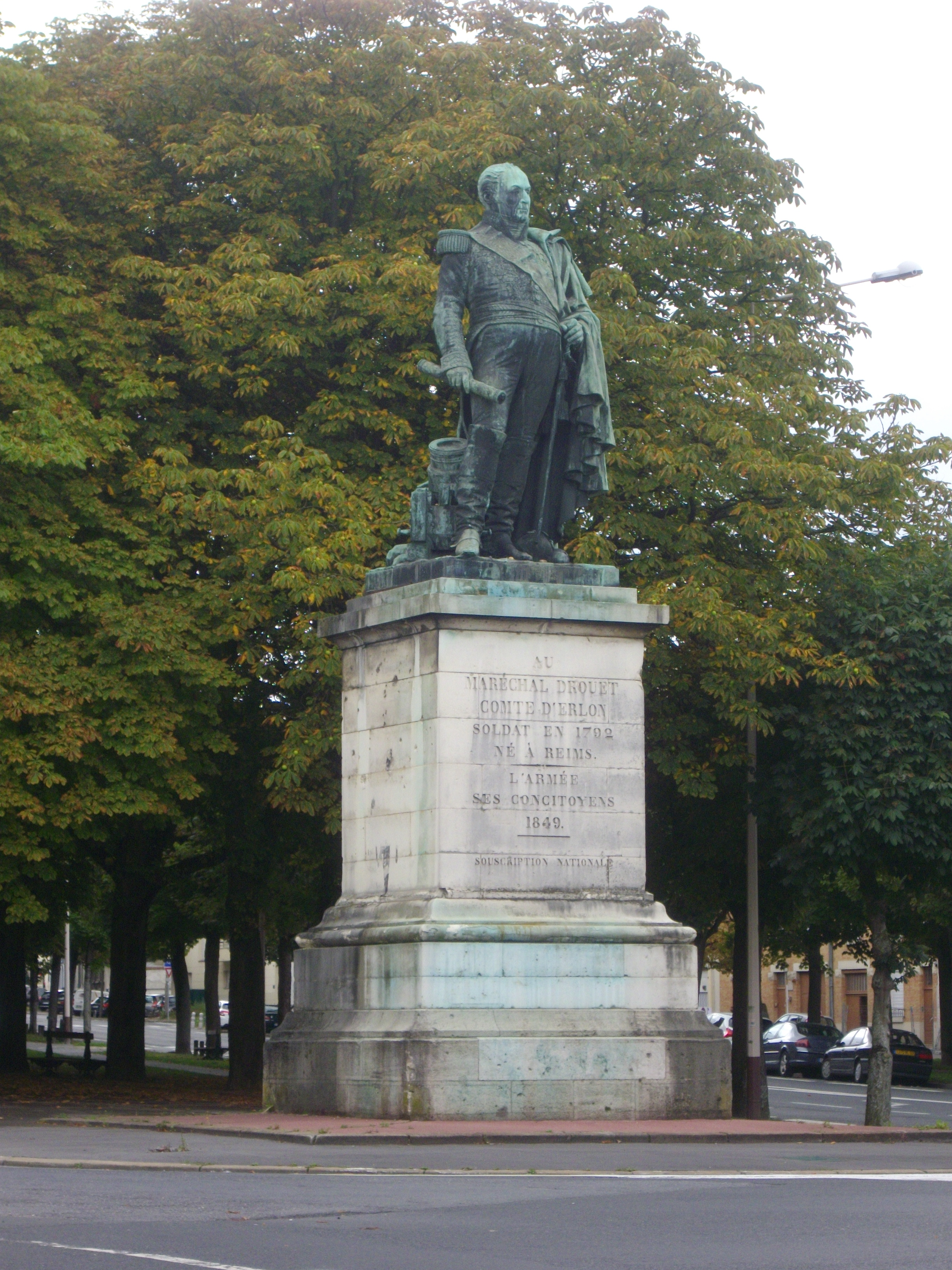 Statue of Marshall Drouet, count of Erlon, Hugo/Vasnier boulevards, in Reims (Marne, France)